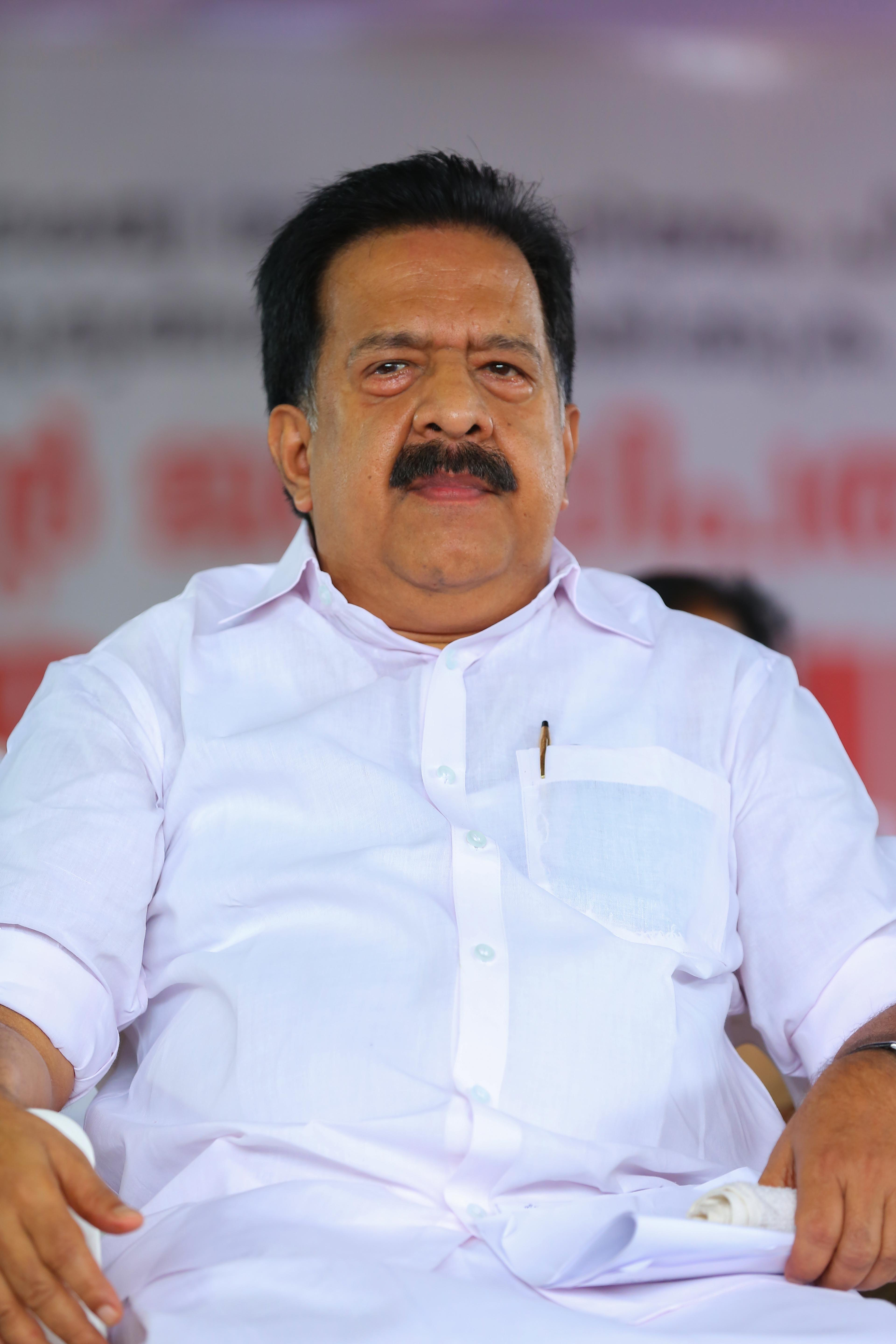 Ramesh Chennithala profile 02